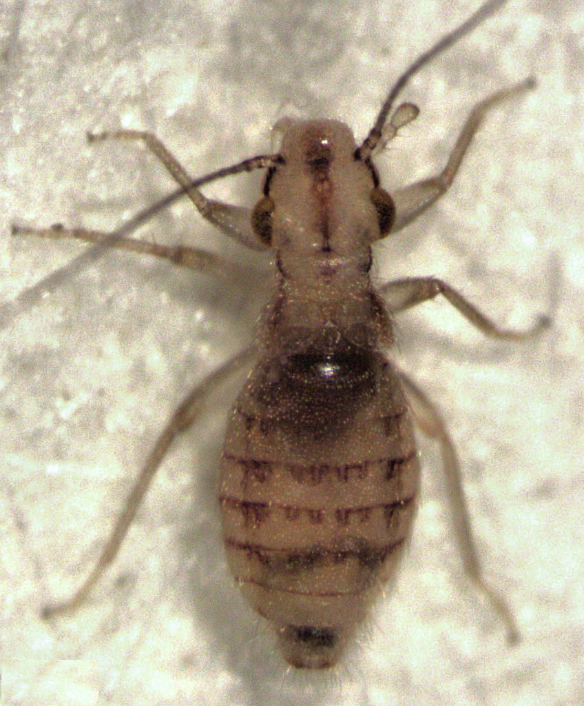 adult Trogium pulsatorium, length about 2 mm